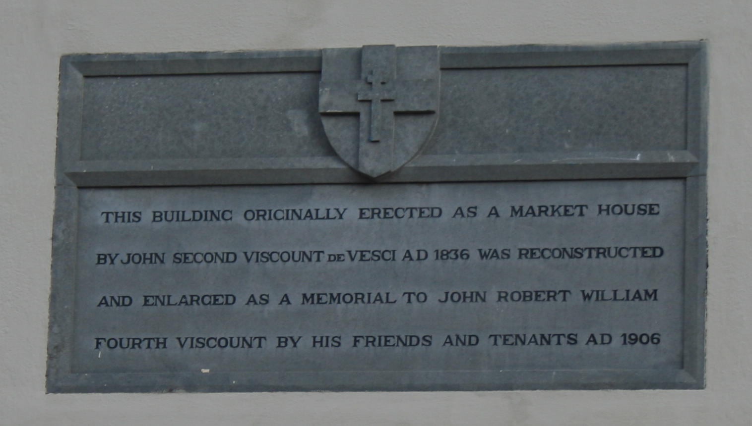 Plaque on Abbeyleix Market House Credit: A Peter Clarke image